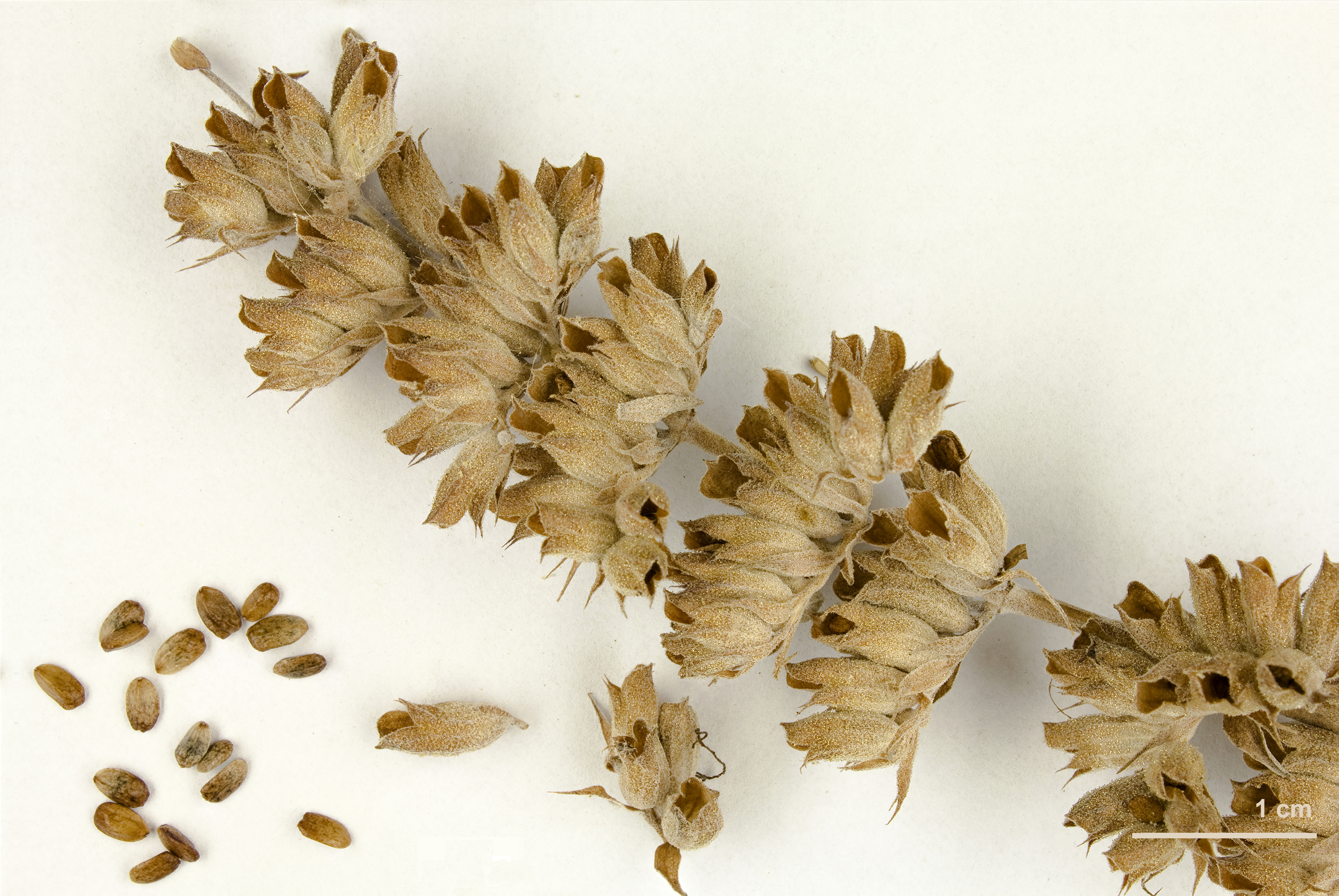 White sage, Capsules and seeds